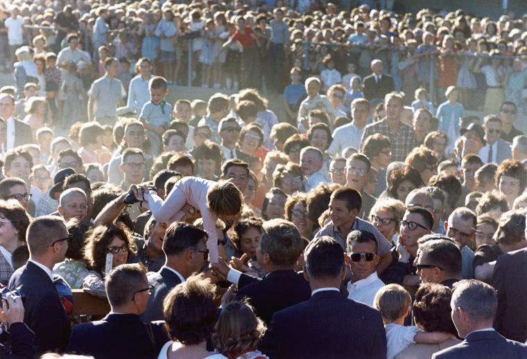 President John F. Kennedy greets a crowd at the Yellowstone County Fair Grounds in Billings, Montana during his "Conservation Tour" of Western States.